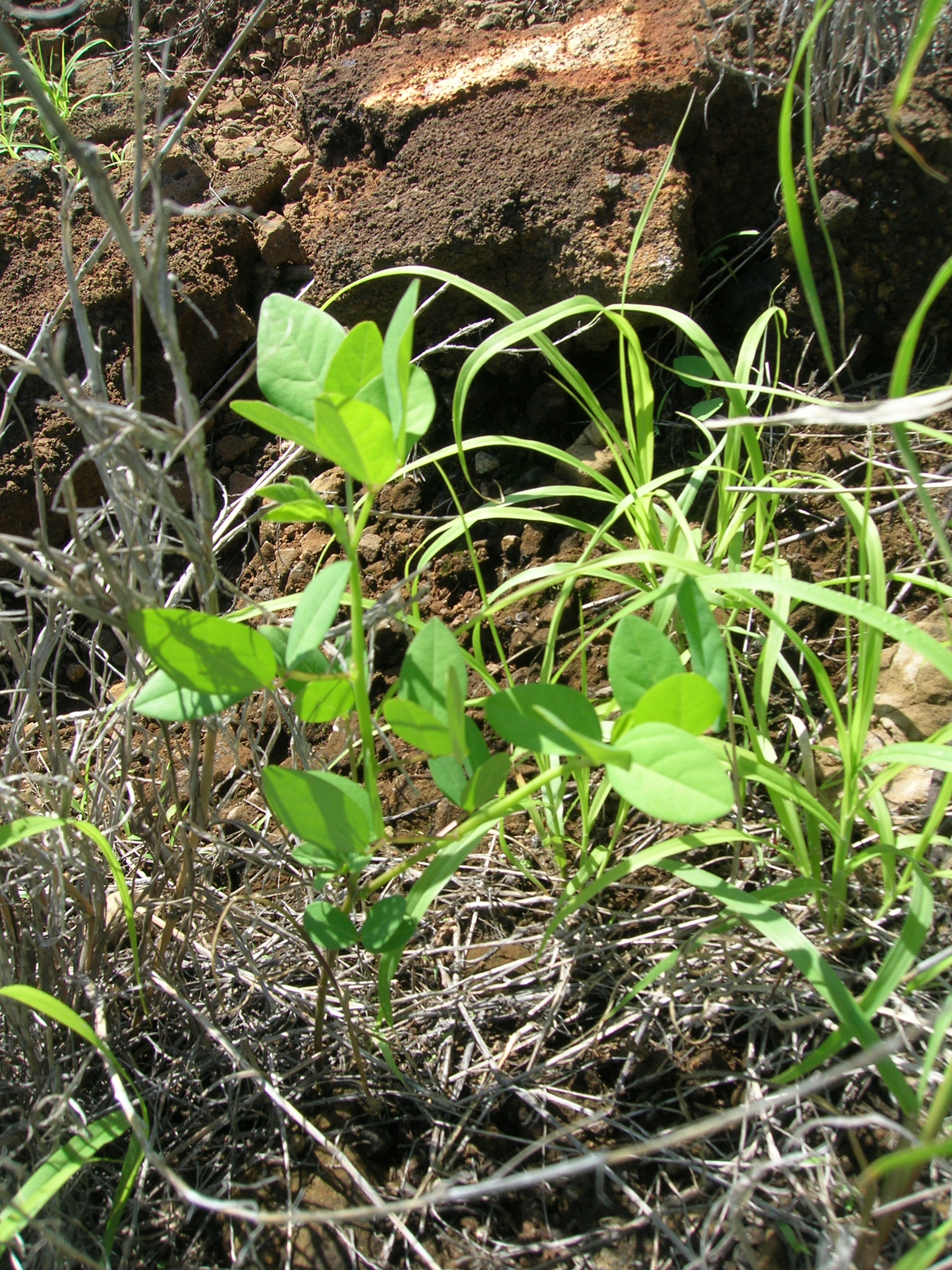 Macroptilium lathyroides (habit). Location: Maui, Molokini